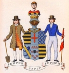 The coat of arms of Charles August Selbye